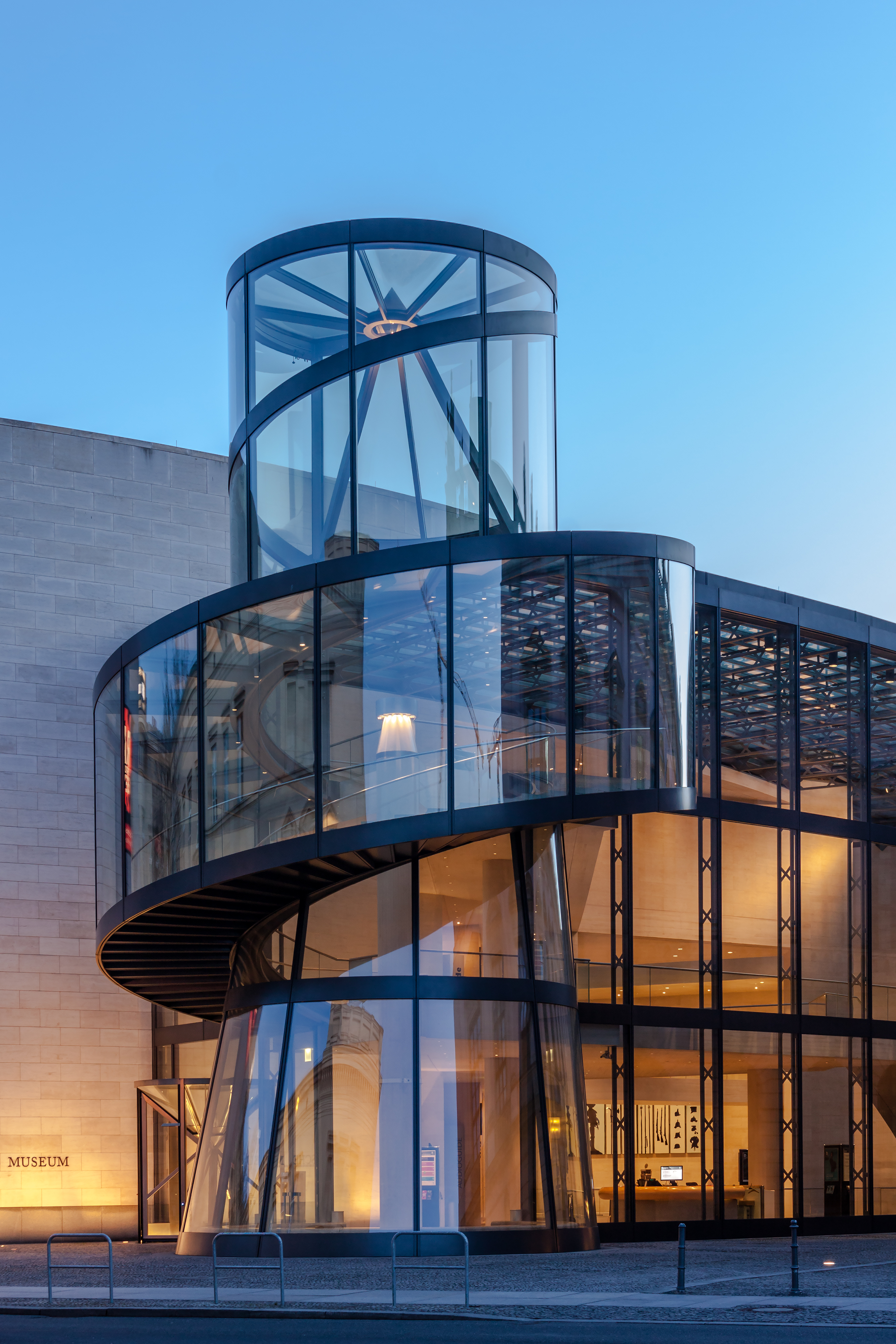 Spiral staircase of the Exhibition Hall of the German Historical Museum. Architect: Ieoh Ming Pei.